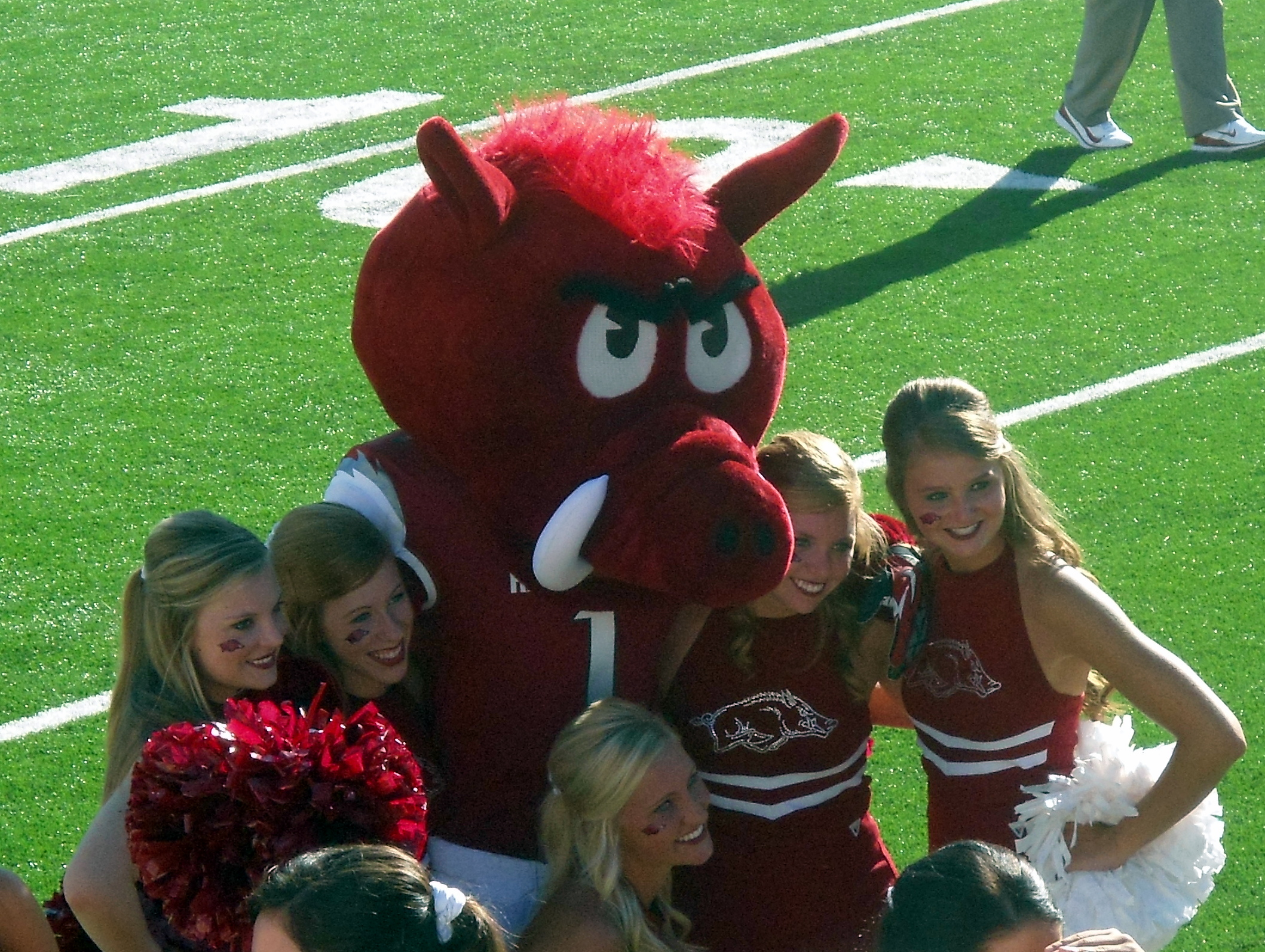 Big Red poses with cheerleaders, ULM at Arkansas, 2012. War Memorial Stadium, Little Rock, AR.